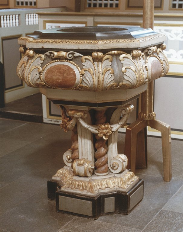 Church St. Nikolai, baptismal font, Elmshorn, Germany